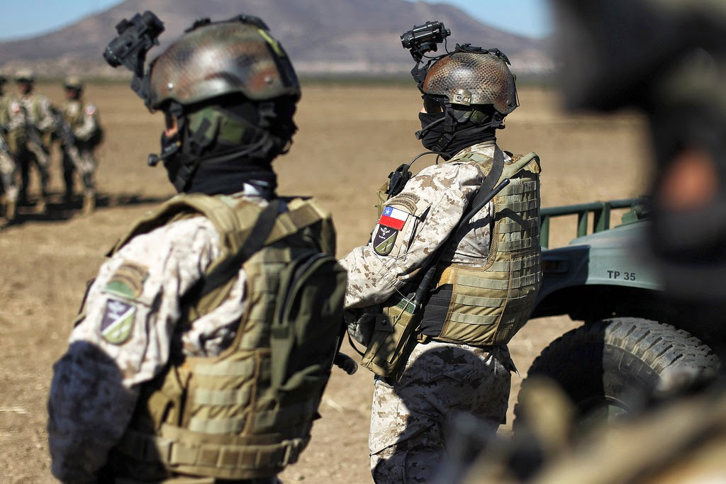 Soldado de la BOE lautaro